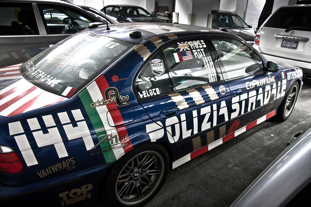 Alex Roy's Team Polizei 144 BMW M5 with 2007 Gumball 3000 decals